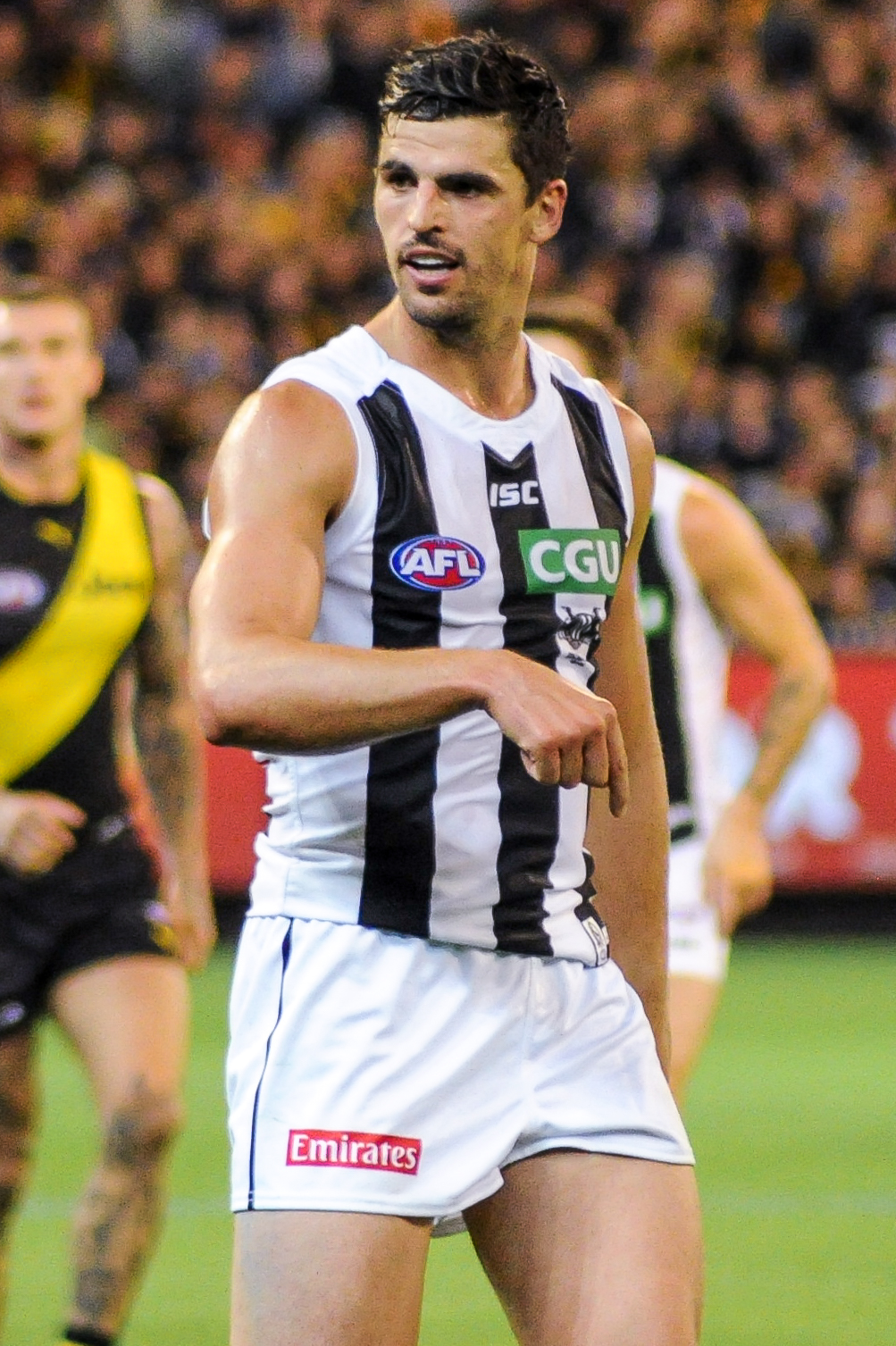 Scott Pendlebury during the AFL round two match between Richmond and Collingwood on 30 March 2017 at the Melbourne Cricket Ground in Melbourne, Victoria.